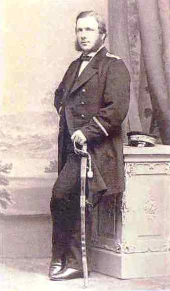 Paul Freiherr von Reibnitz, german rear admiral